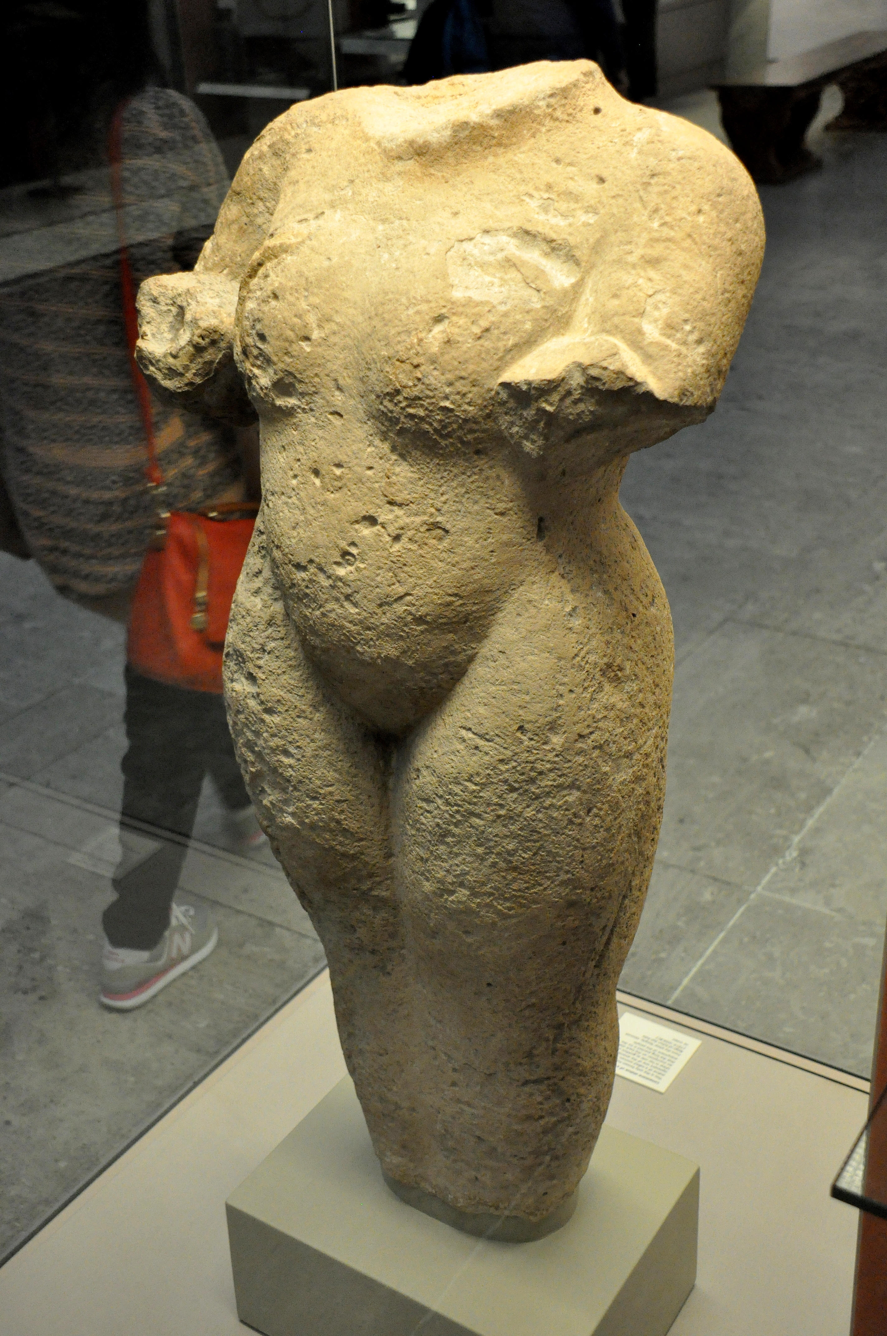 The only known Assyrian statue of a naked woman, erected at the temple of Ishtar in Nineveh (Northern Mesopotamia, modern-day Iraq). The cuneiform inscription on this limestone statue states that the king ordered this statue to be made for the enjoyment of the people. Middle Assyrian Period, reign of Ashur-bel-kala, 1073-1056 BCE. Currently housed in the British Museum, London.